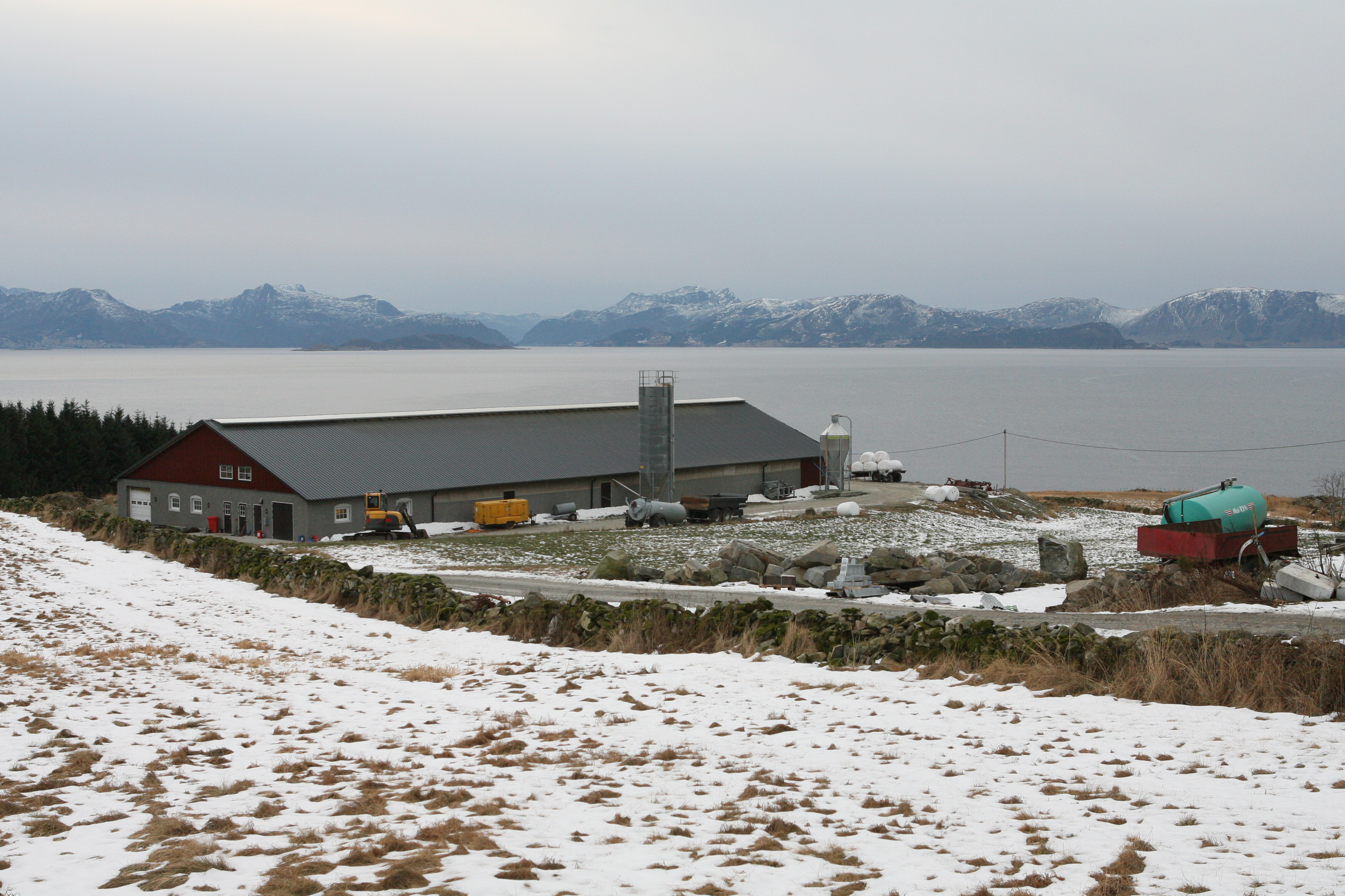 Modern barn at dairy farm in Sogn og Fjordane, Norway.